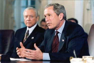 President Bush, Senator Orrin Hatch